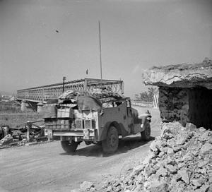 The Drive for Messina 10 July - 17 August 1943: A Bren Gun Carrier moves up to the Catania Plain from the Primosole Bridge.